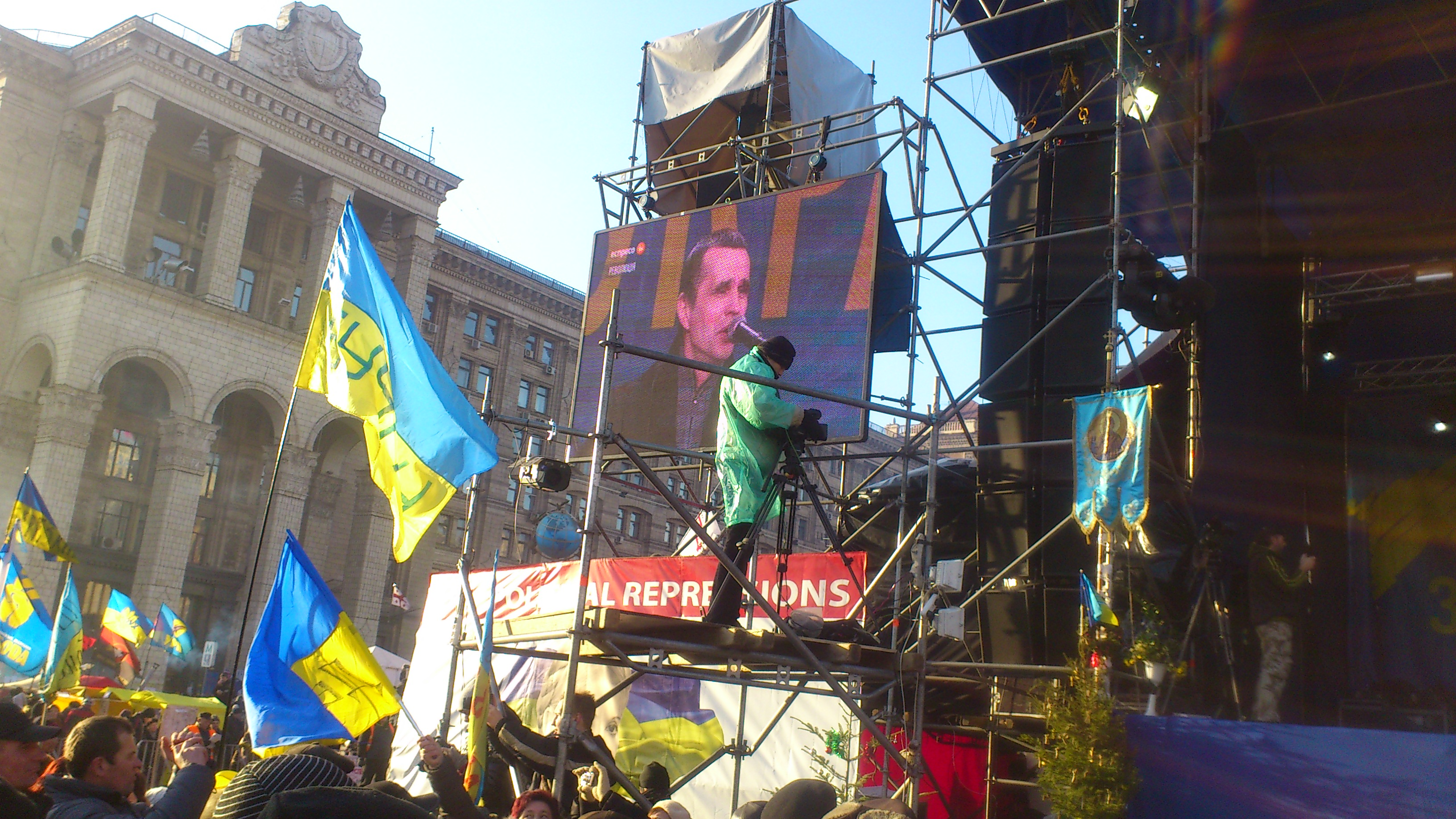 Anatoliy Suchiy at Euromaidan